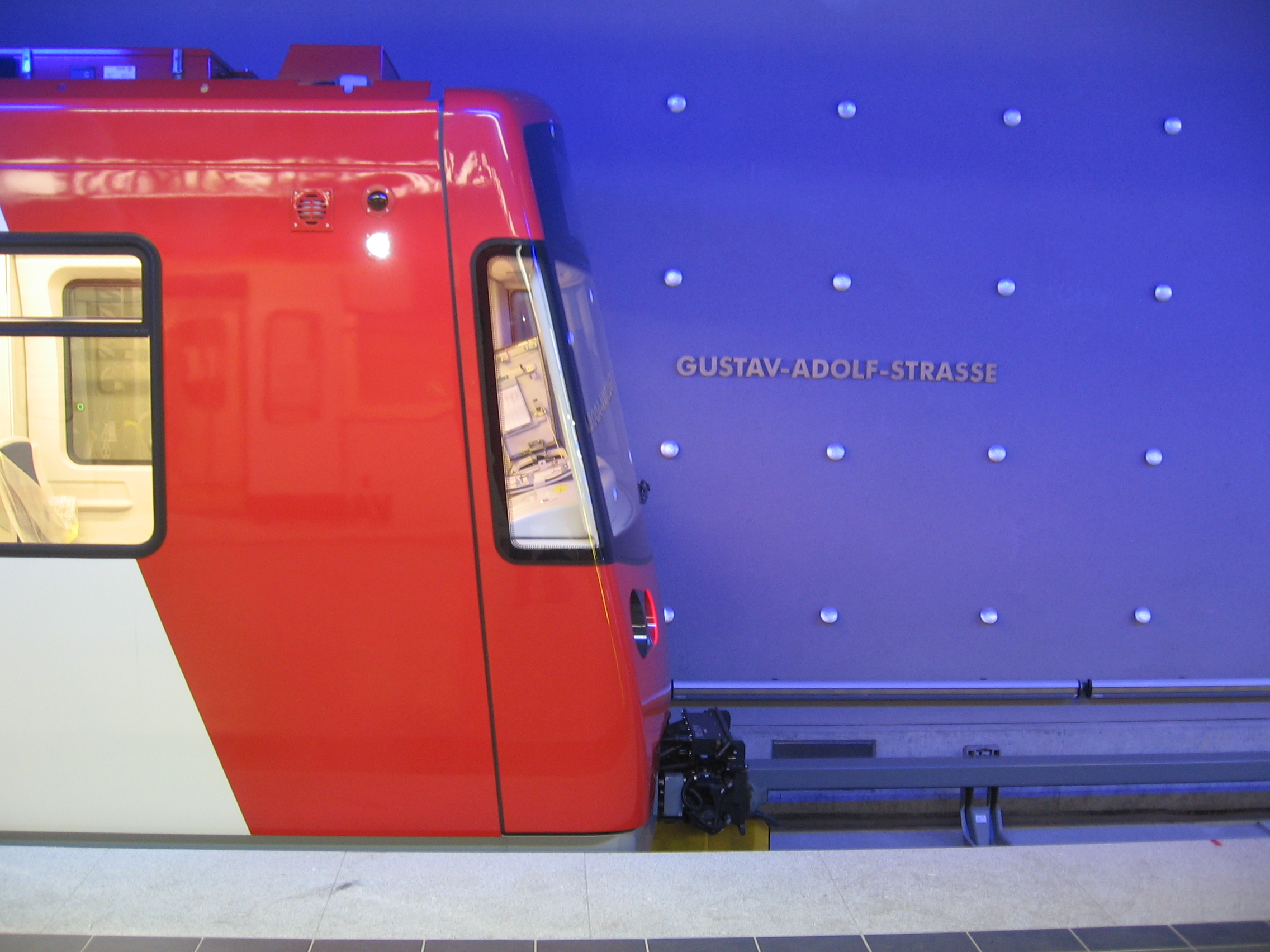 Image of a DT3 of Nuremberg U-Bahn (Nuremberg, Germany) at station Gustav-Adolf-Straße